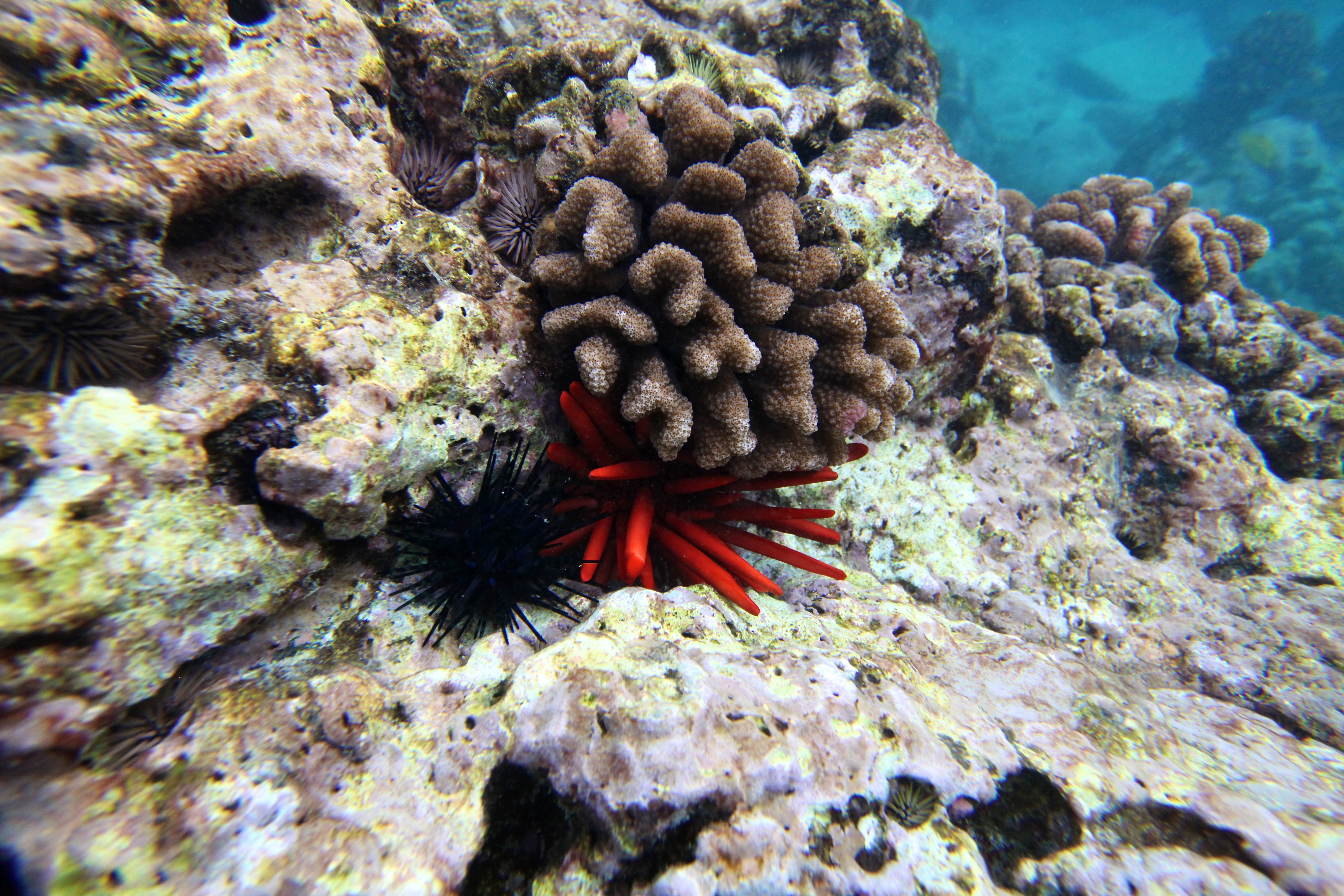 Many sea urchins seen in Keokea Ahupua'a (Hawaii) : Echinometra mathaei (grey and purple-grey), Heterocentrotus mamillatus (red) and Echinothrix diadema (blue), with a Pocillopora coral.